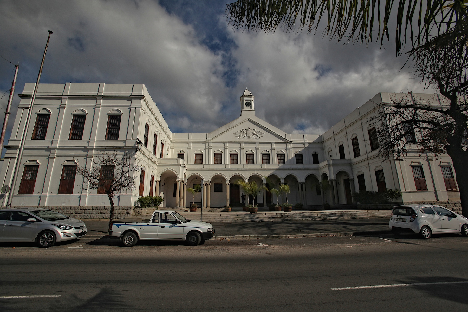 Town Hall, 256 Main Street, Paarl This media shows a South African Protected Site with SAHRA file reference 9/2/069/0134.